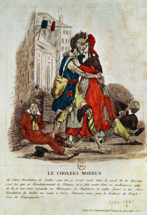 Cholera Morbus, a French caricature